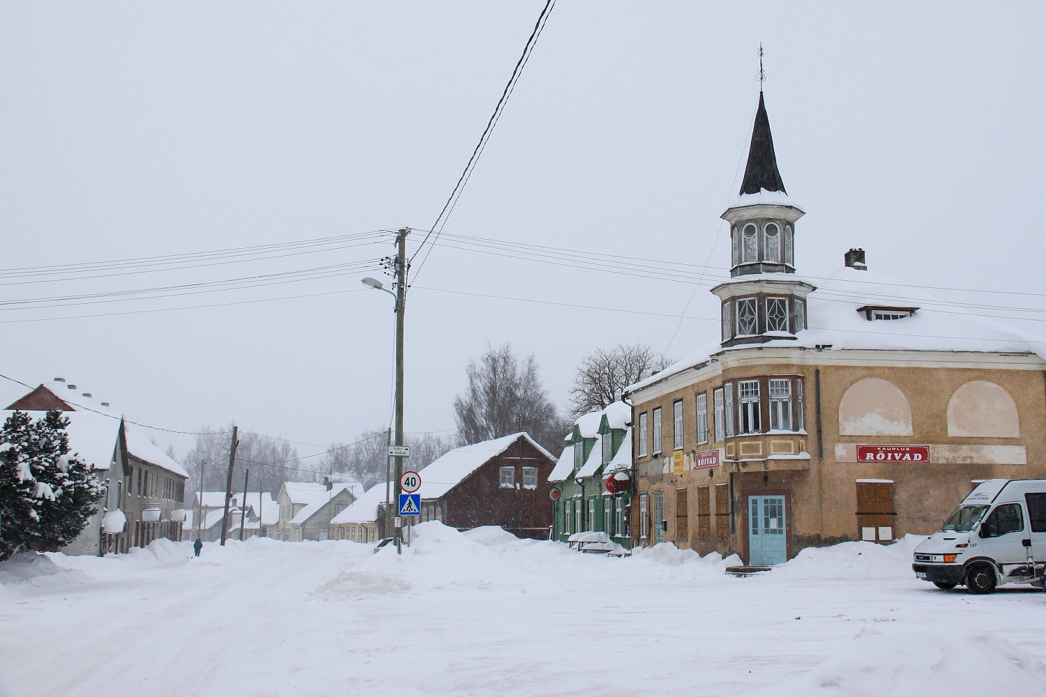 Mustla